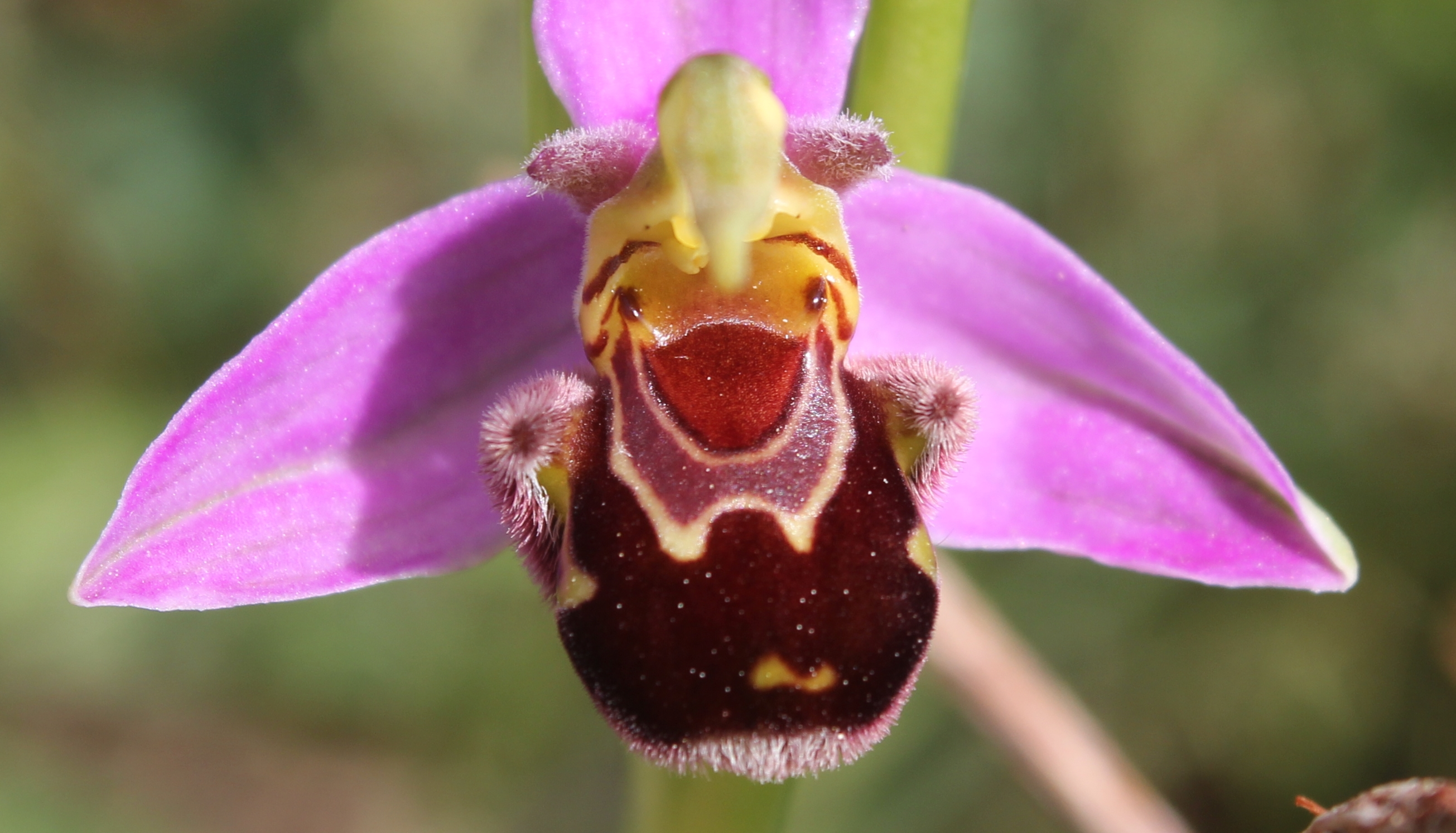 Ophrys apifera labellum